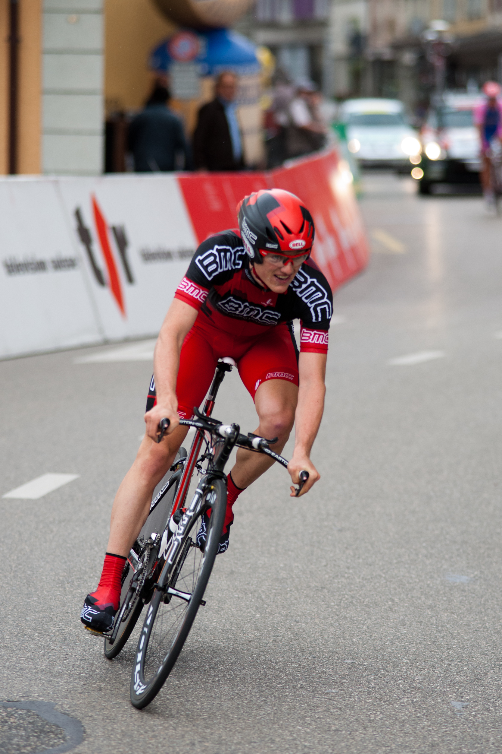 Mathias Frank during the 3rd stage of the Tour de Romandie 2010.